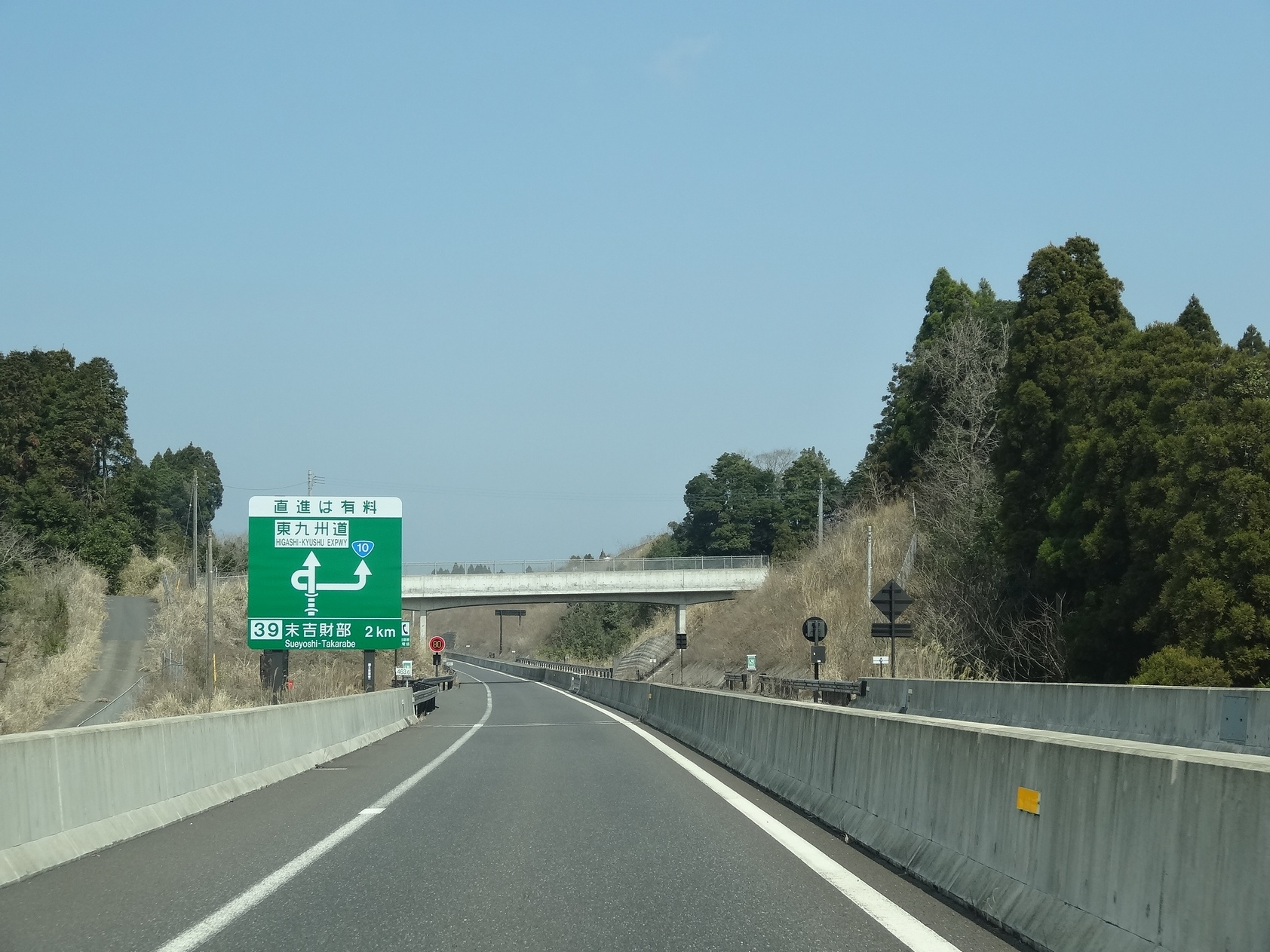 The Higashi-Kyushu Expressway in Sueyoshi, Soo City, Kagoshima Prefecture, Japan.